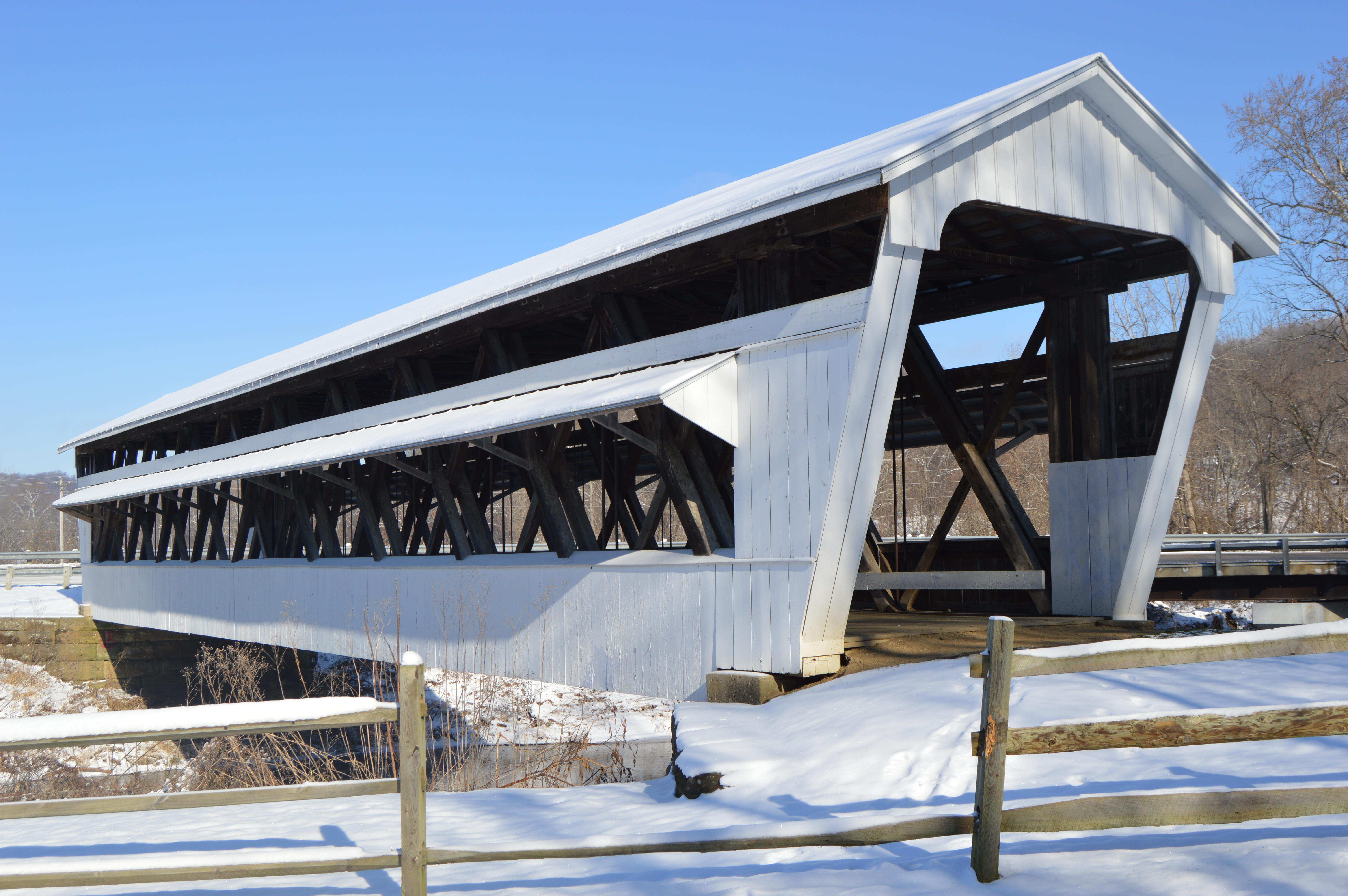 Western side and southern portal of the Johnston Covered Bridge, which spans Clear Creek southeast of Clearport in Madison Township, Fairfield County, Ohio, United States.